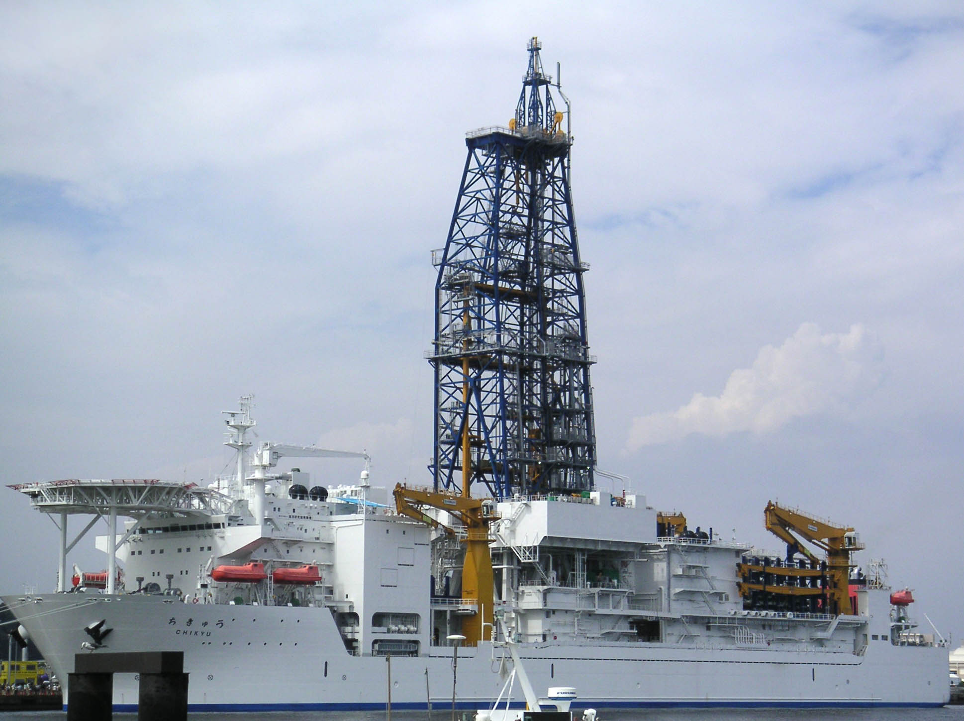 JAMSTEC (Independent Administrative Institution, Japan Agency for Marine-Earth Science and Technology)'s Deep-sea Drilling Vessel "CHIKYU". Photo taken at Yokosuka New Port, Kanagawa, Japan.